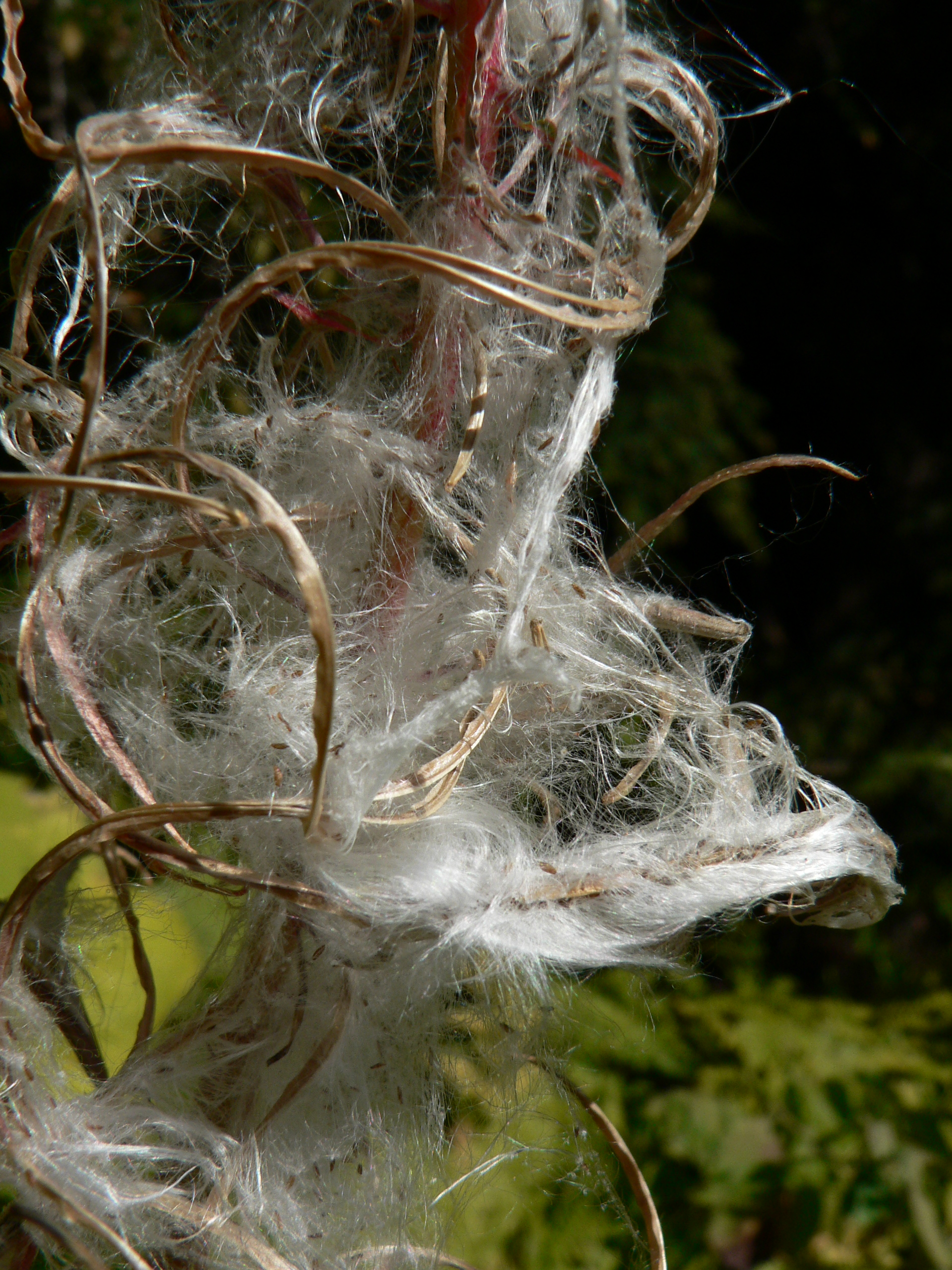 Fireweed